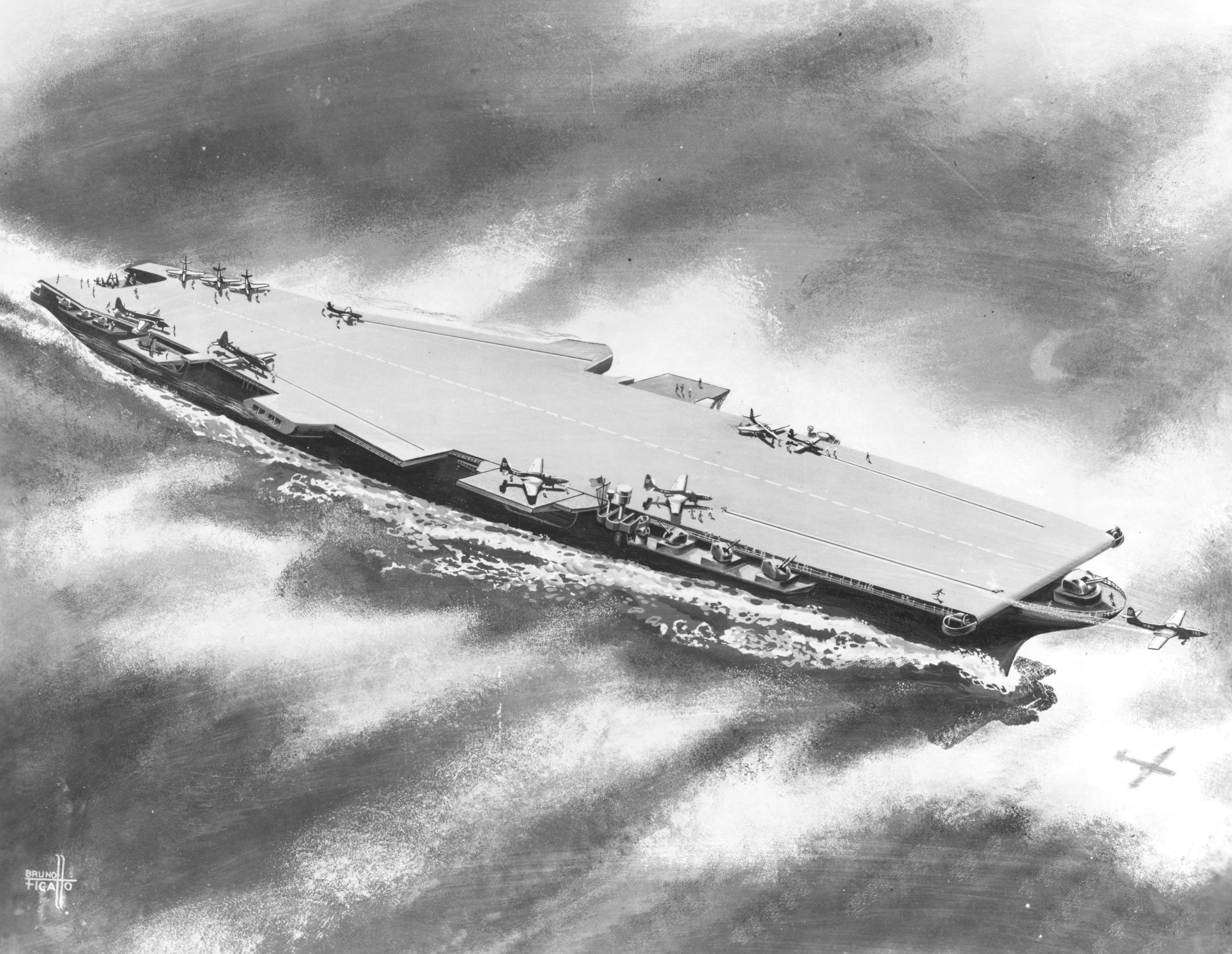 Artist's conception of the U.S. Navy aircraft carrier USS United States (CVA-58) by Bruno Figallo, October 1948, showing the ship's approximate planned configuration as of that time. Many details, among them the location of smoke stacks, elevators and the retractable bridge, were then still not finally decided. This carrier was laid down at Newport News, Virginia (USA), on 18 April 1949 and cancelled by the Secretary of Defense a few days later.